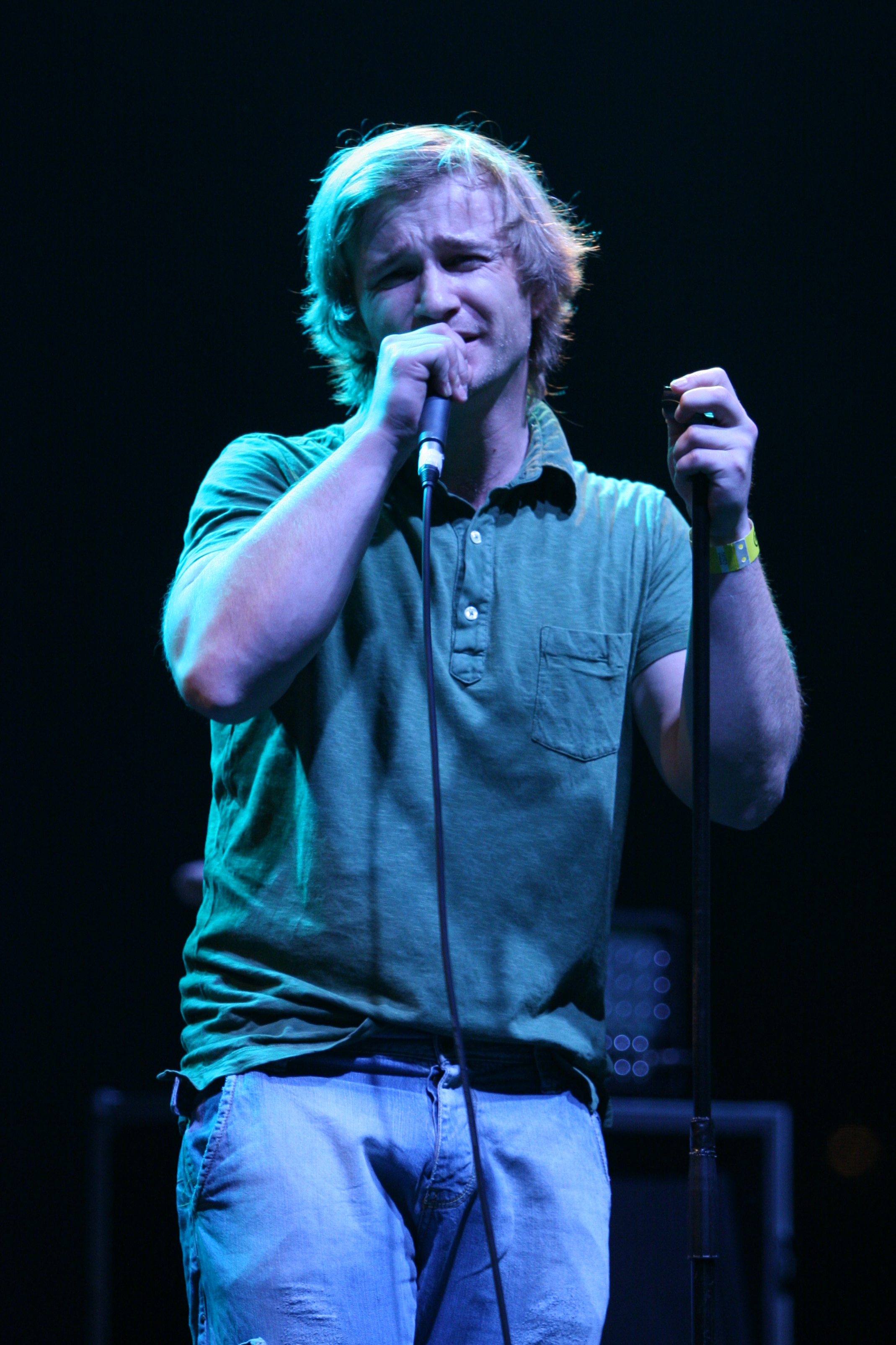 Kryštof Michal, singer of Support Lesbiens, at 2008 Majáles in Prague